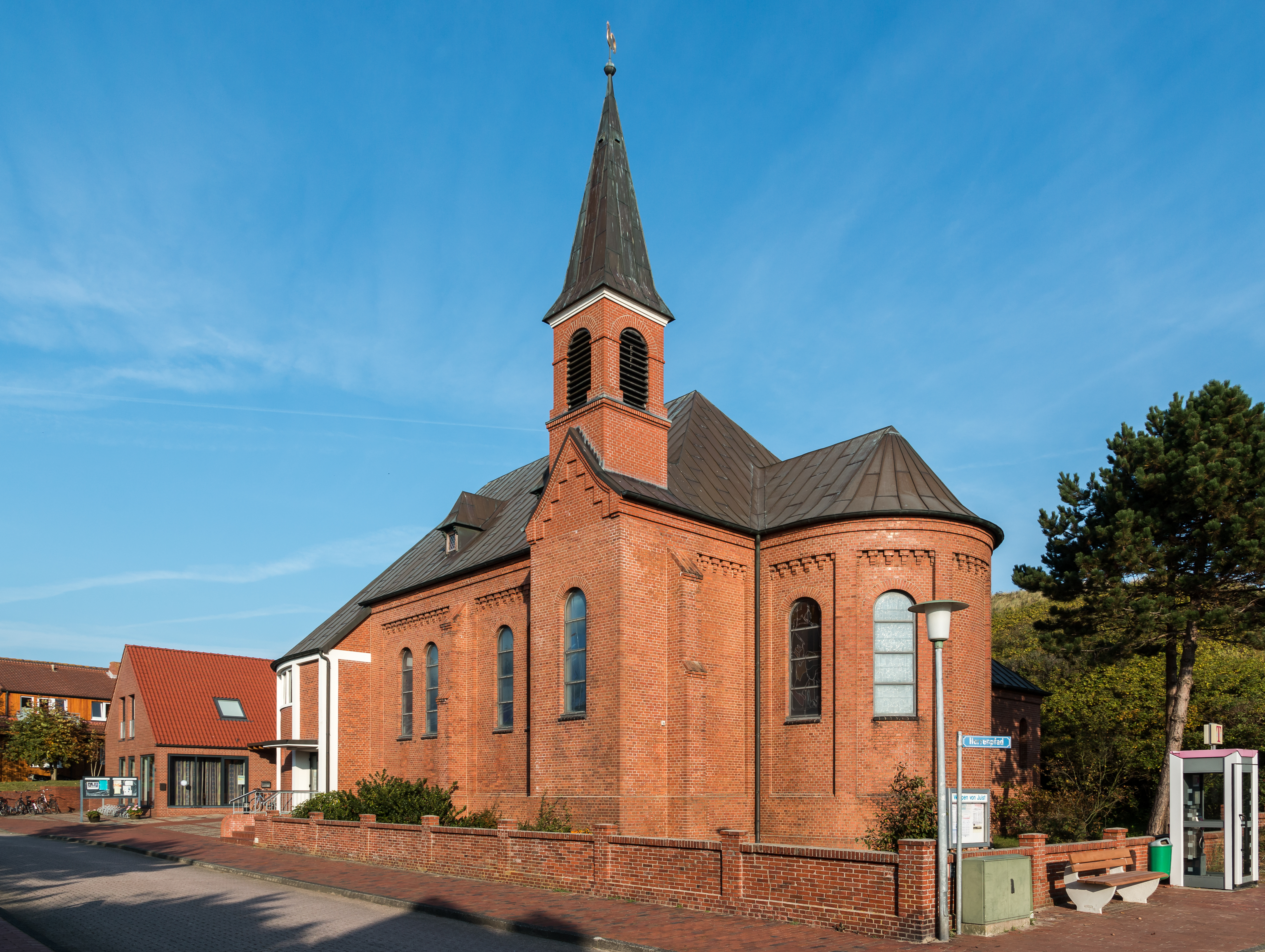 Catholic Church “To the Holy Guardian Angels”, Juist, Lower Saxony, Germany This is a photograph of an architectural monument. .00027